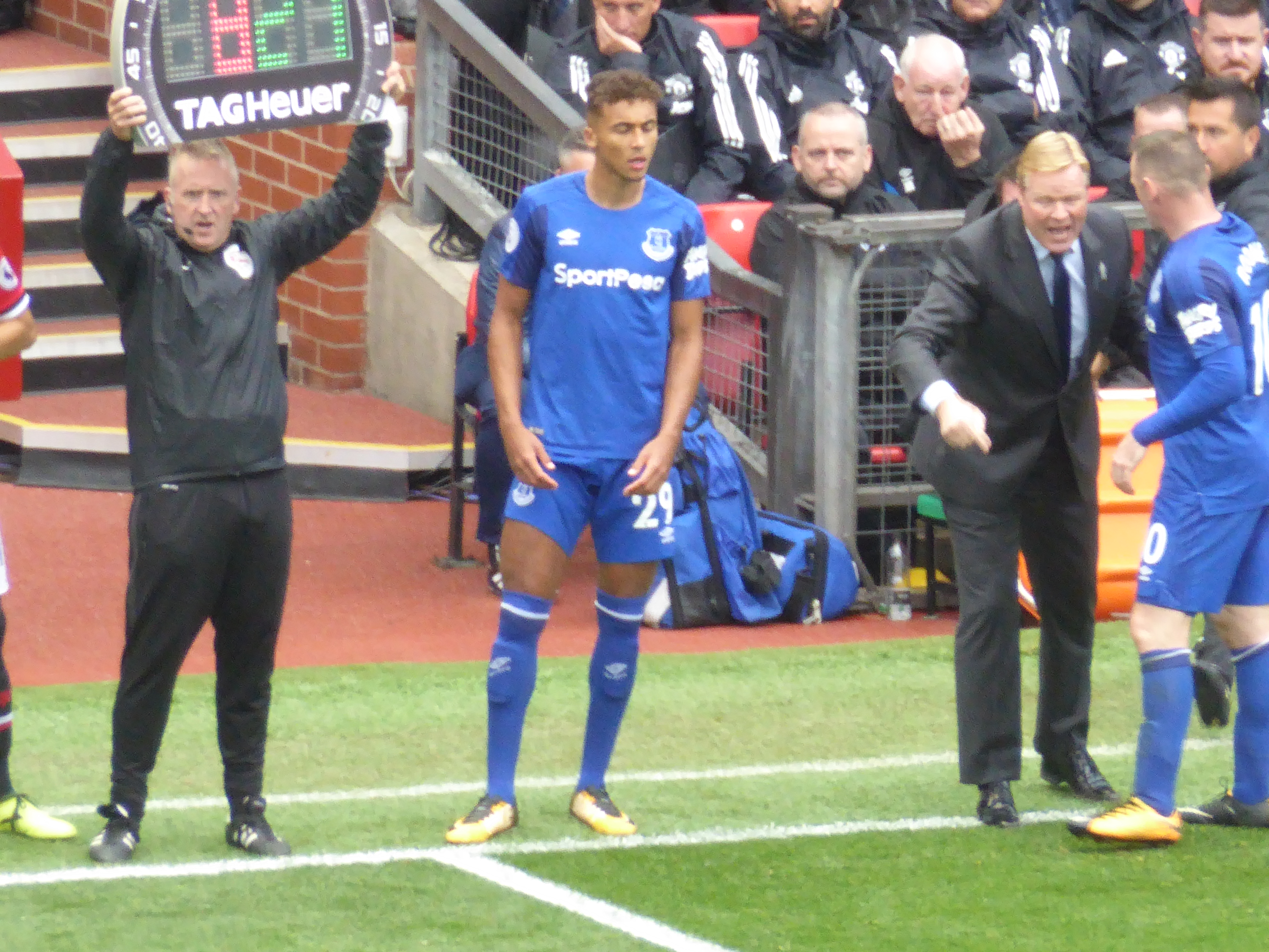 Manchester United v Everton (4-0), Premier League, Old Trafford, Manchester, Greater Manchester, England, 17 September 2017